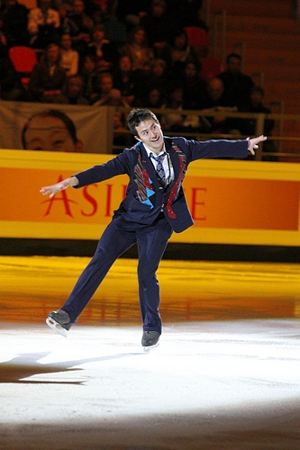 Patrick Chan during his exhibition in Moscow, 2011 World Championships